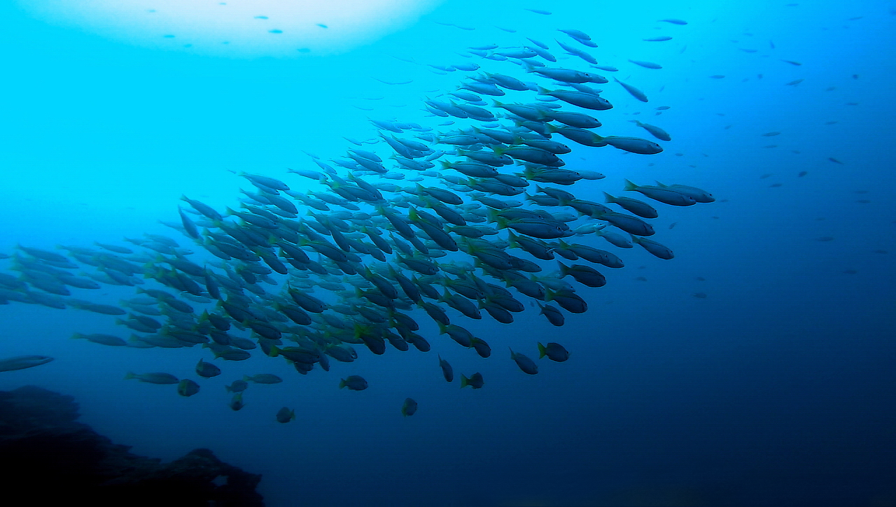 A school of Bigeye Snapper (Lutjanus lutjanus) in the south shore of Long-Dong Bay, a famous scuba diving site located at northeast coast of TAIWAN. This photo was taken by Vincent C. Chen on Sep. 12, 2015